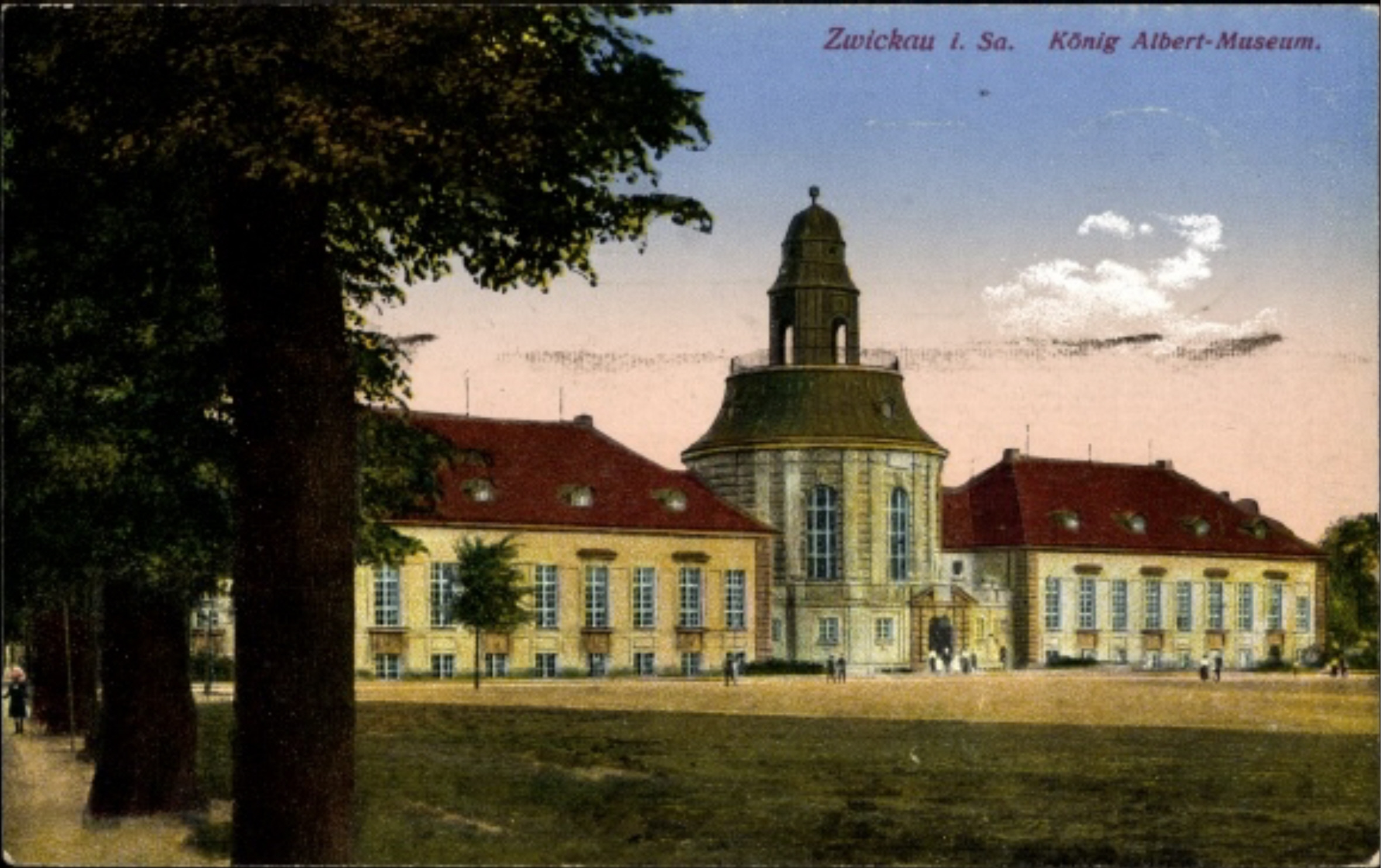 Municipal Museum in Zwickau, built in 1914